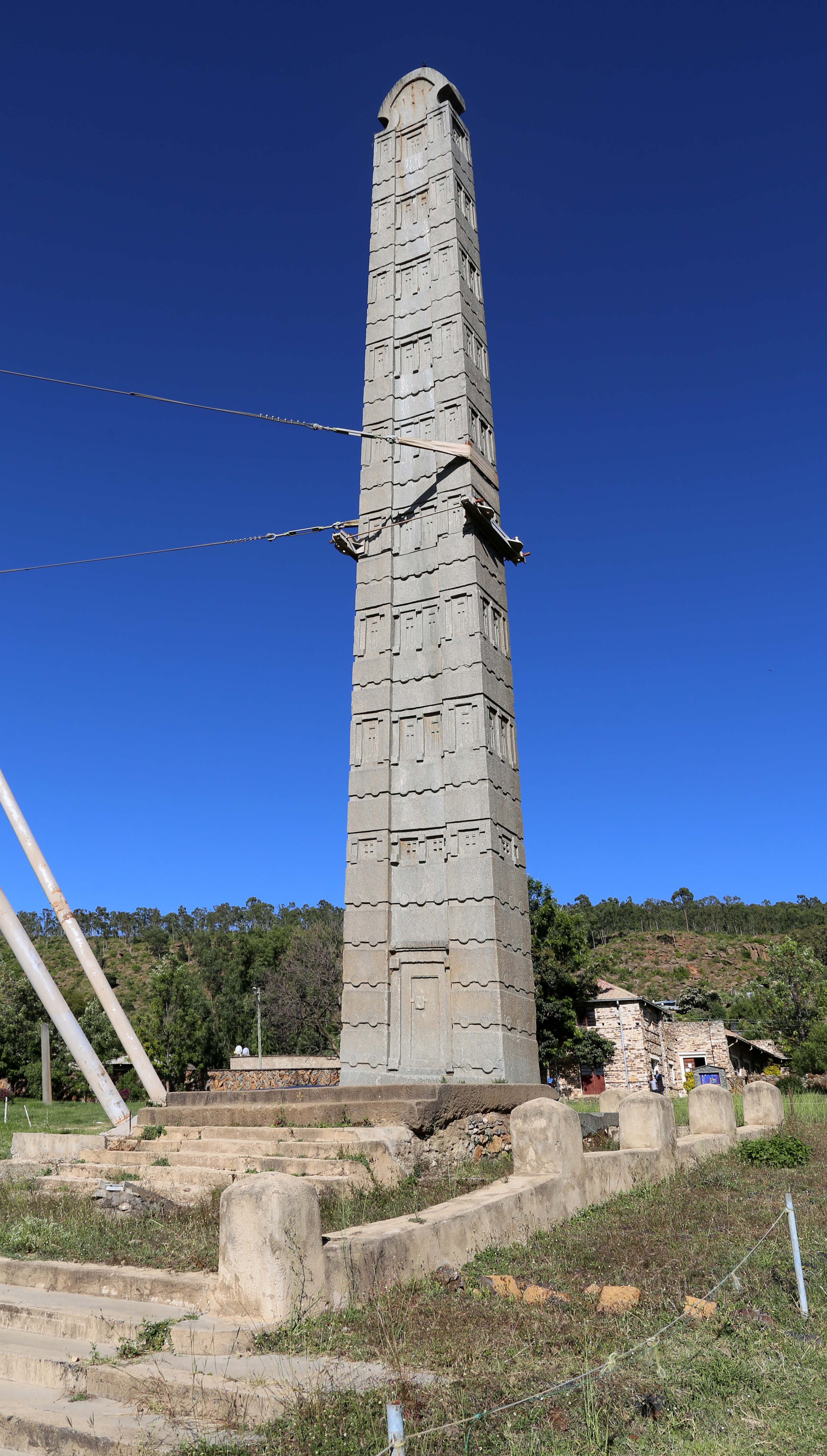 Aksum Stele n. 3 (King Ezana's Stele)